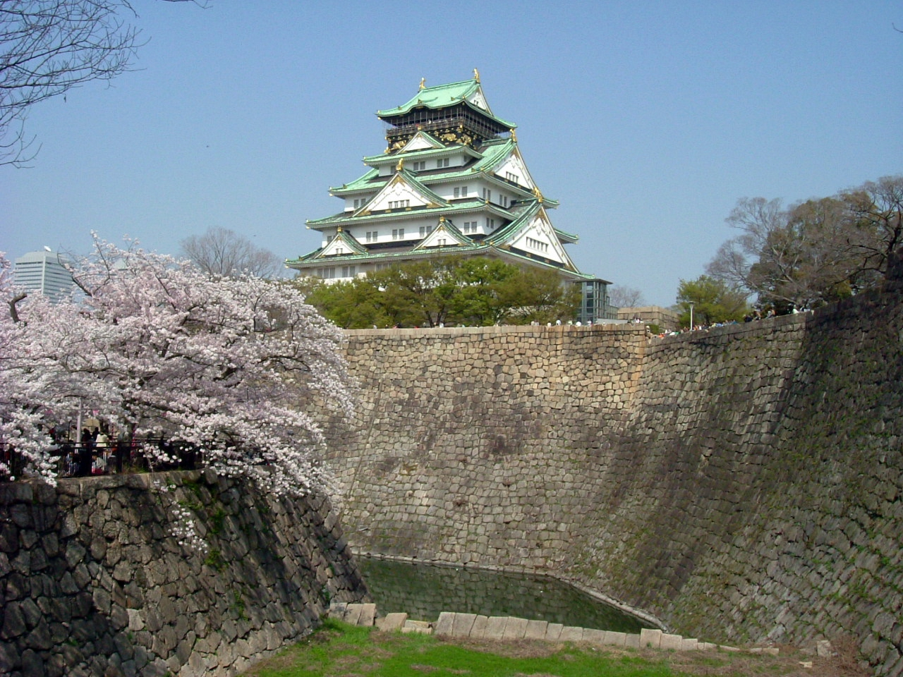 Osaka Castle Cherry Blossom Festival, view from Nishinomaru Garden.